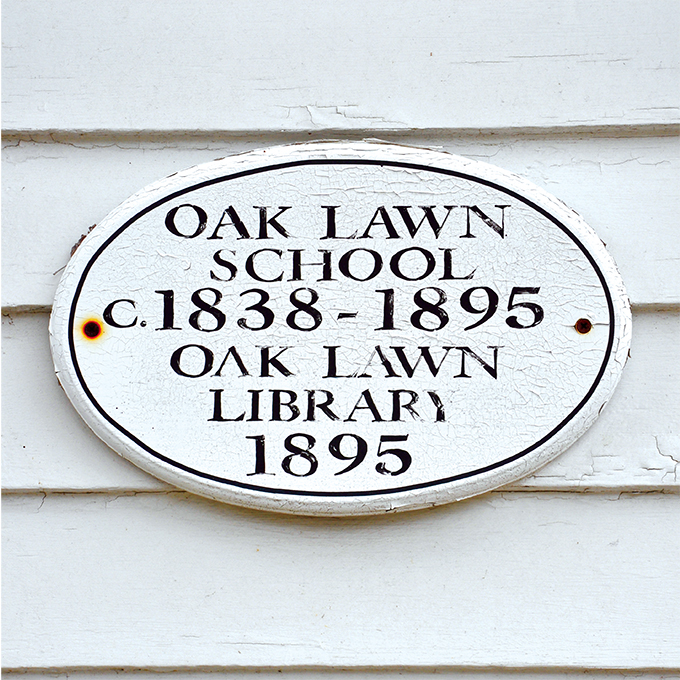 The Oak Lawn branch is located in a historical building with a rich history of having served the community as a school house as well as a library.